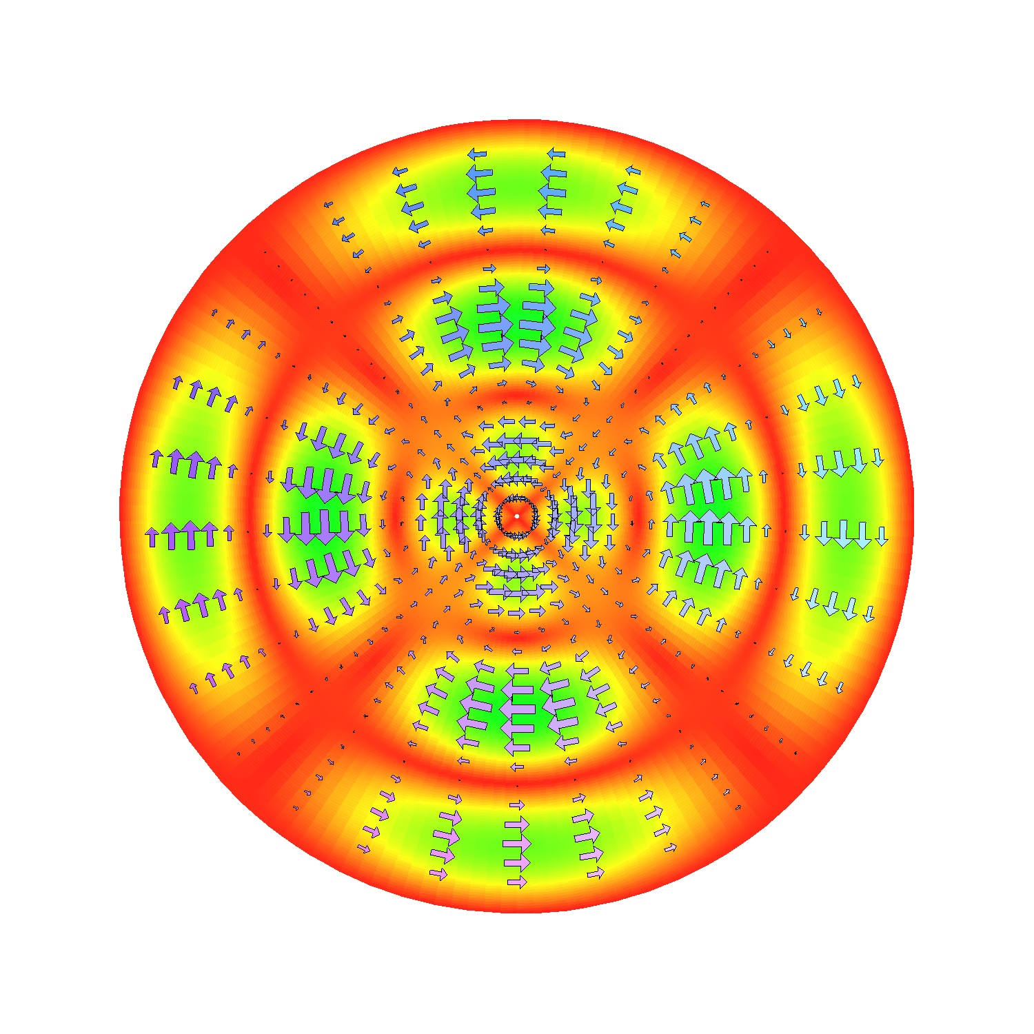 Plot of E and H fields on the TEnl mode defined by n and l.